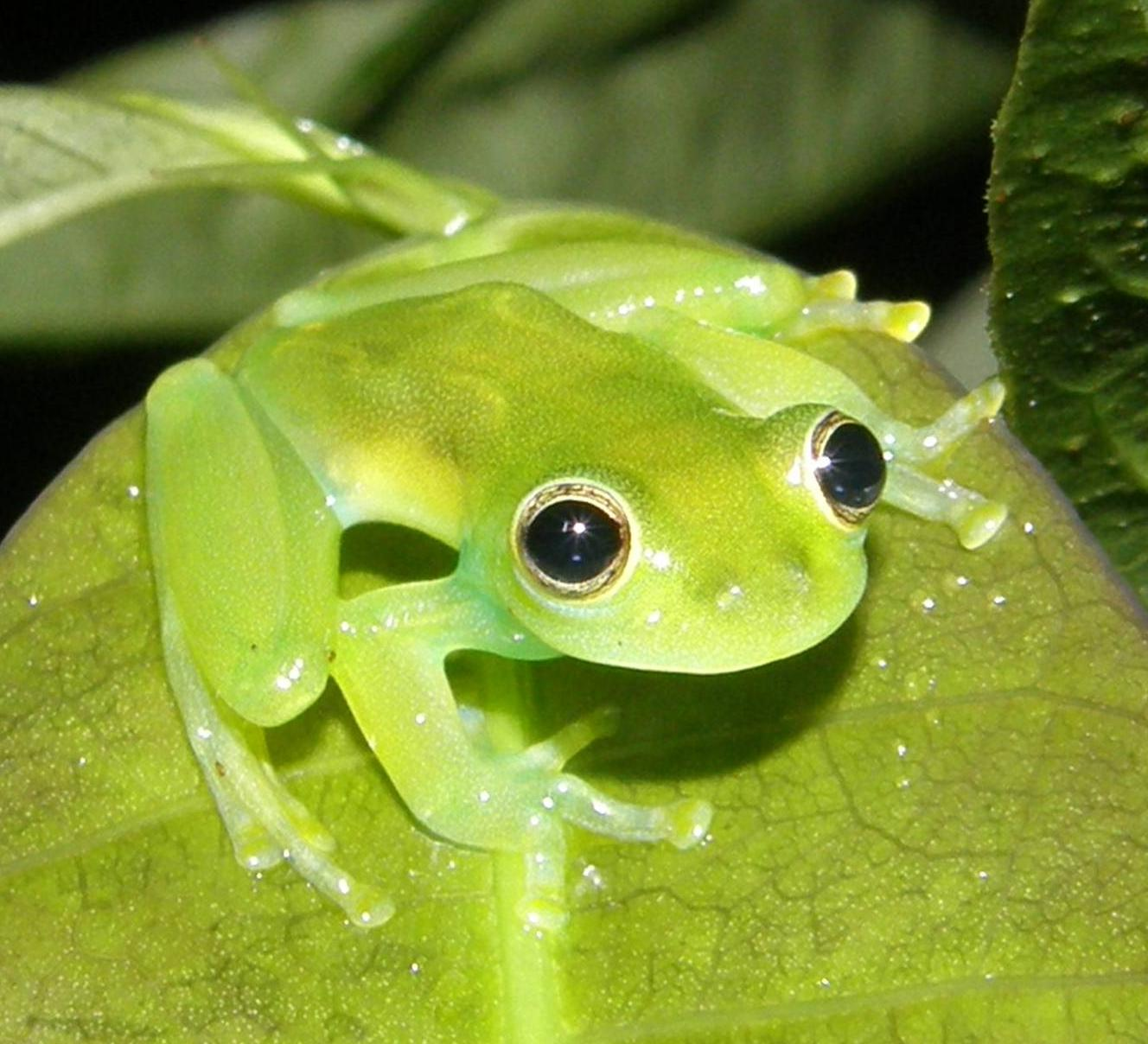 It took some looking, but we found one! This was the first glass frog of the night, a male Cochranella spinosa. Two other glass frog species were calling, Cochranella granulosa and Hyalinobatrachium fleischmanni, but one hid way up in the trees, and the other was apparently just too sneaky for us.